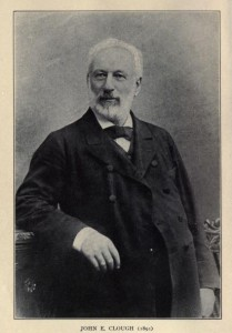 John Everett clough, pioneer american baptist missionary in andhra in 1881